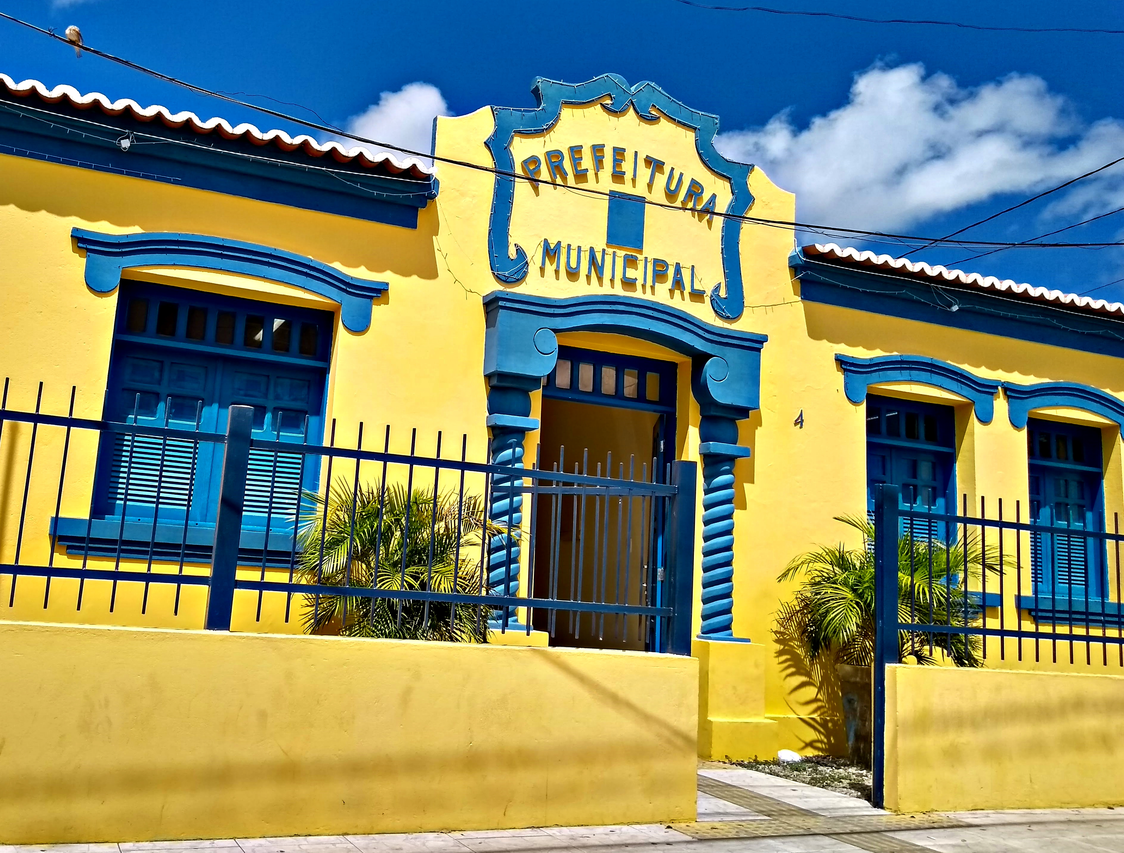 City Hall of São Paulo do Potengi/RN